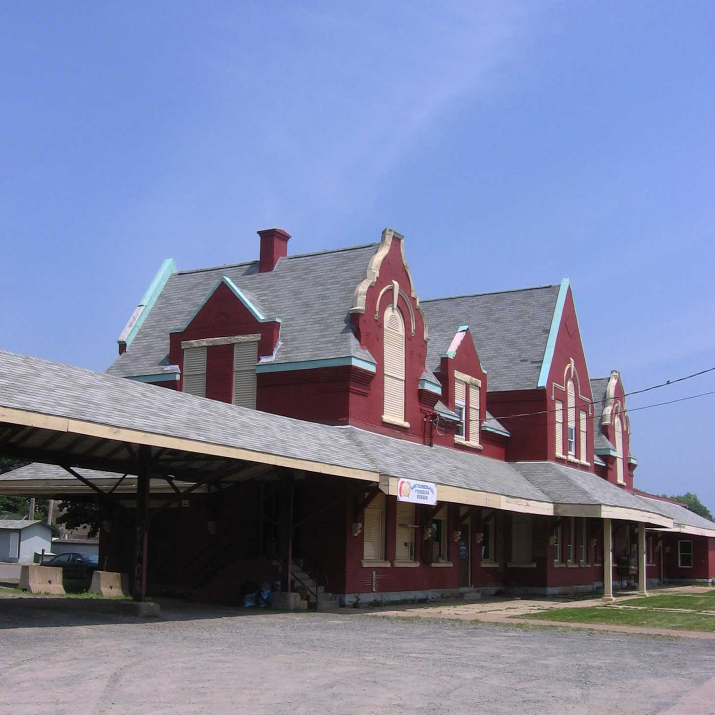 Pictou train station, now a fisheries museum